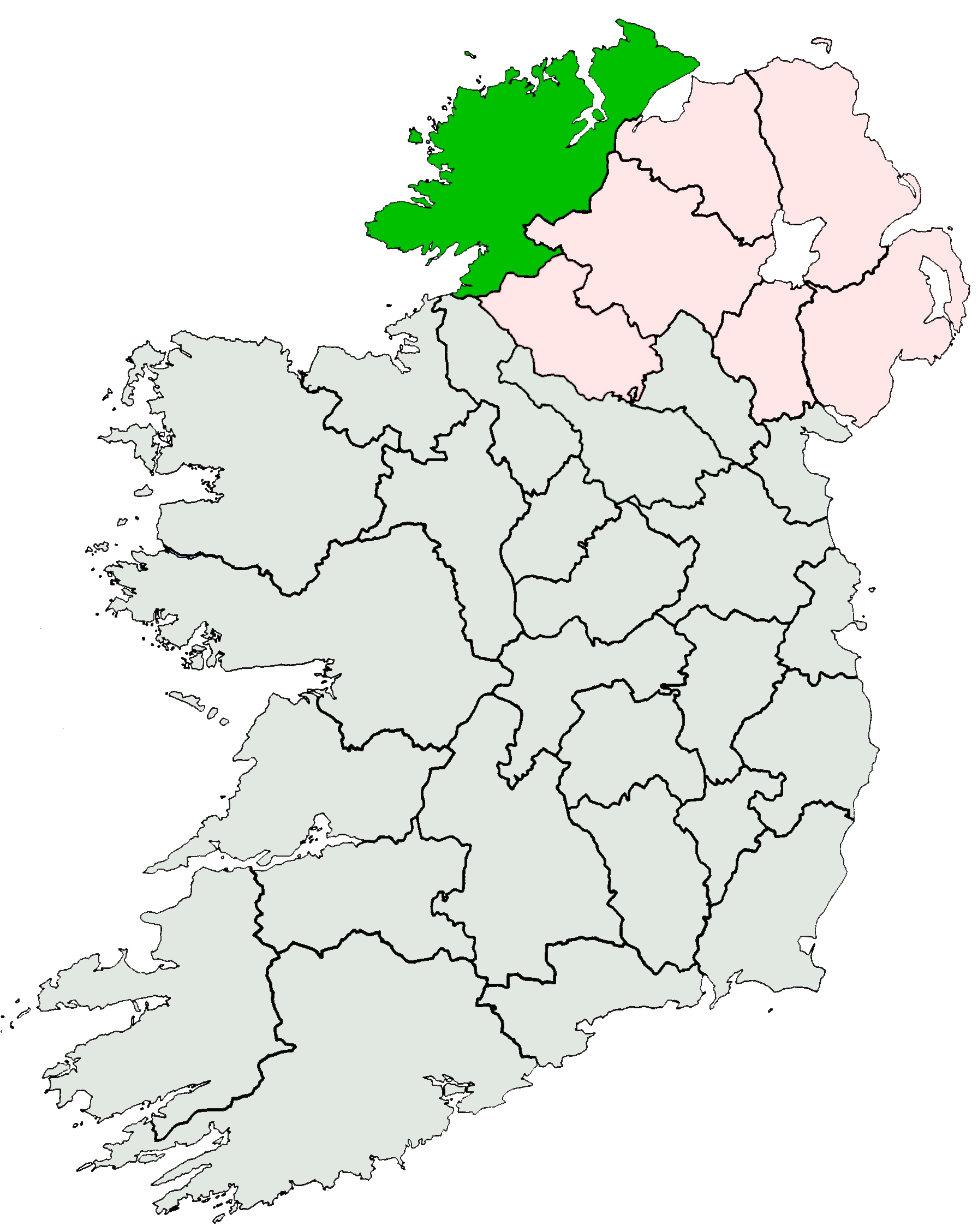 County Donegal highlighted on an outline map of Ireland.